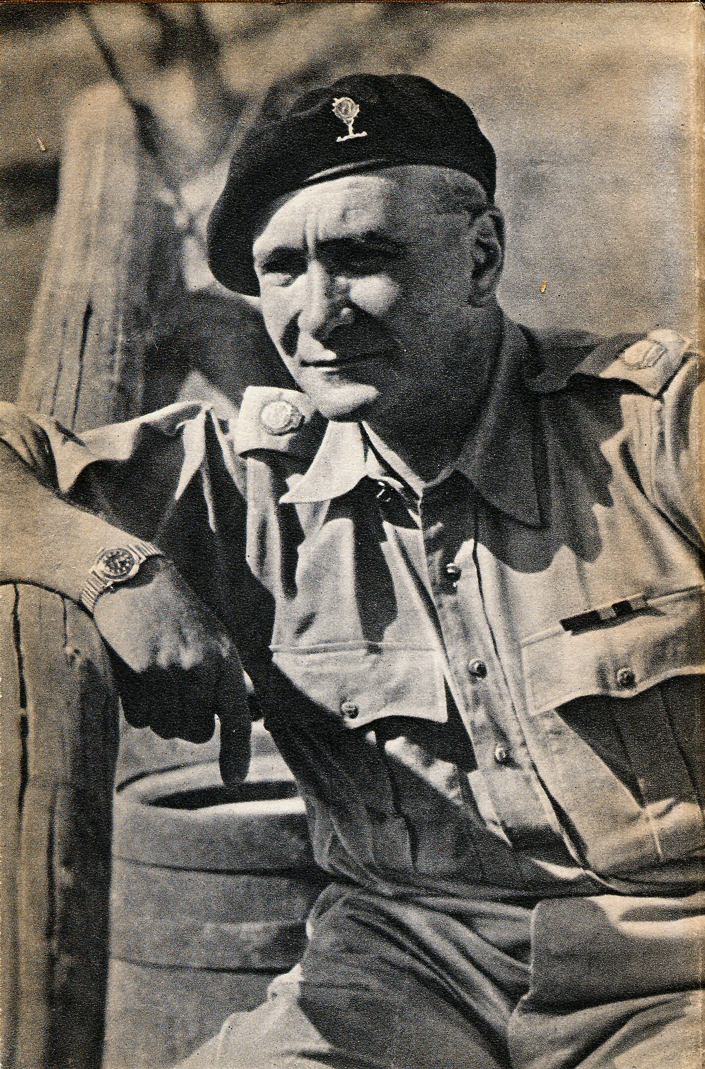 This image is taken from the LRDG/British Army archives, and is used in several books in an uncut form. The copyright holder is mentioned above as the British Government. Any photographs of Popski (who died in the early 1950s) are more than 50 years old, and were taken during his service.